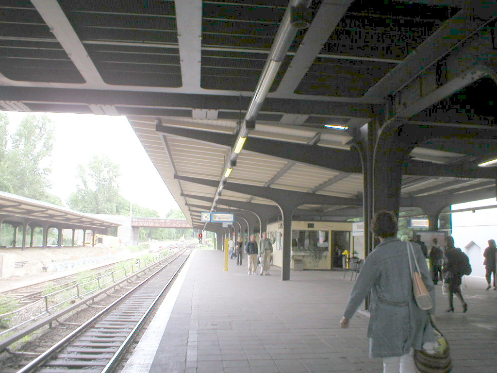 S-Bahn station Westkreuz, lower platform for east-west lines; Berlin, Germany